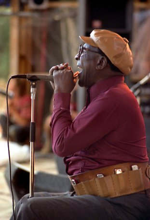 Image (photograph) taken by Official Nambassa Photographer and uploaded by User:Mombas, Nambassa dot com Terms of Use: 1/ All users of this image are required to attribute this work to "Nambassa Trust and Peter Terry" and the URL: " " is to accompany all use. 2/ Attribution. You must attribute the work in the manner specified by the author or licensor. 3/ For any reuse or distribution, you must make clear to others the license terms of this work. Statement by Nambassa Trust and Peter Terry